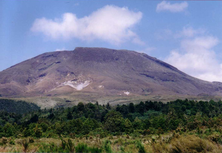 Mount Tongariro, New Zealand from the north. Note the fumarole to the lower left of the slope. Photograph taken in February 2000 by James Dignan.